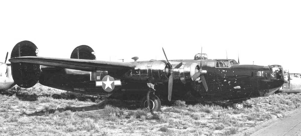 Ford-built B-24M-31-FO (44-51506) at Kingman, Arizona 2-7-47.